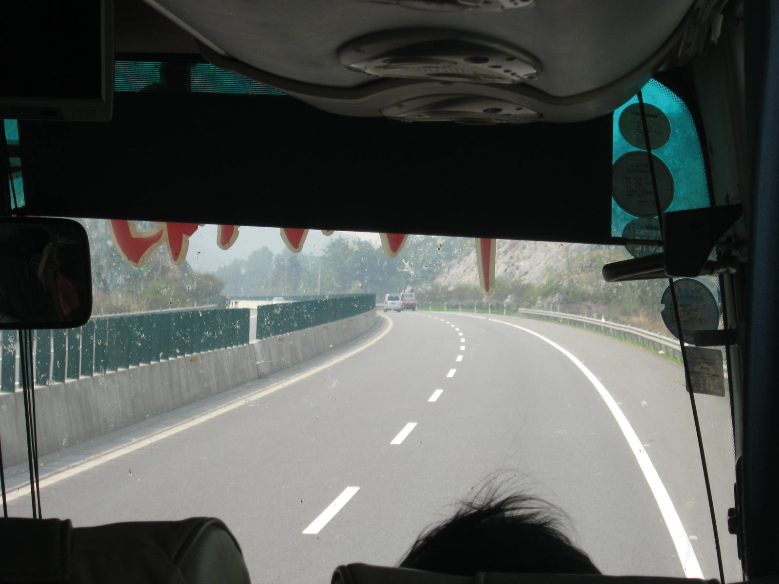 G55 in Hunan, near ShaoYangXian (邵阳县）。